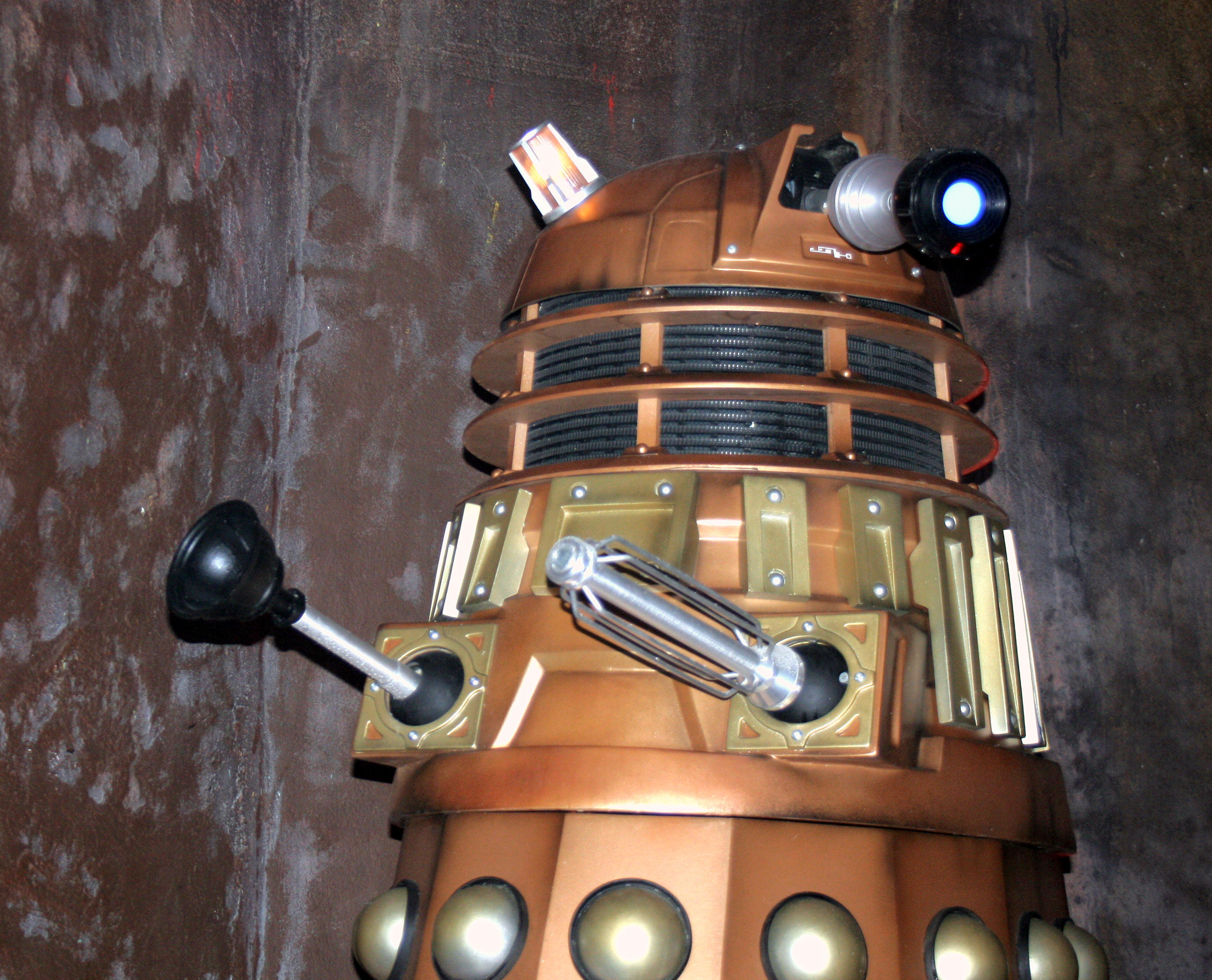 Dalek - Land's End - Cornwall, England - Sunday February 17th 2008. For Steel Steve...who wanted to see the Dalek..lol..:O) Enjoy my friend..:O) See it move here.. Which is more then I did, cause I was looking elsewhere, and when I did, the Dalek went down..and wouldn't come back up again..:O( Also see here.....